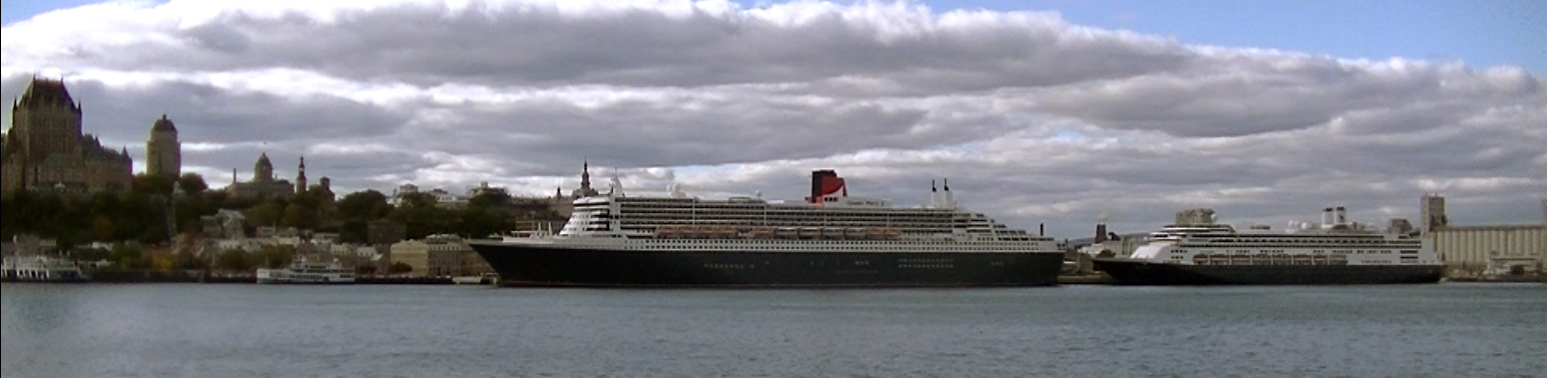 Payne-designed ships RMS Queen Mary 2 and MS Rotterdam in Quebec City in September 2017.